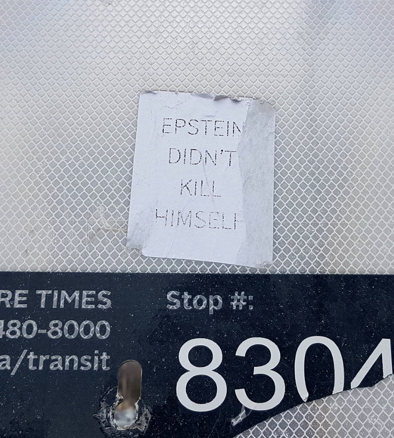 An "Epstein didn't kill himself" sticker at a bus stop in Halifax, Canada.